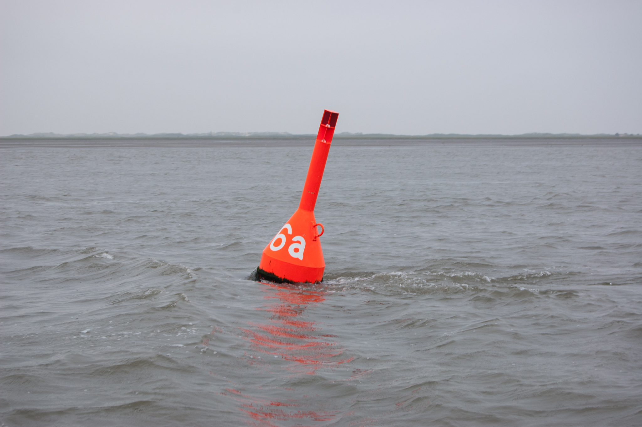 Spar buoy on the way to Norderney, Germany